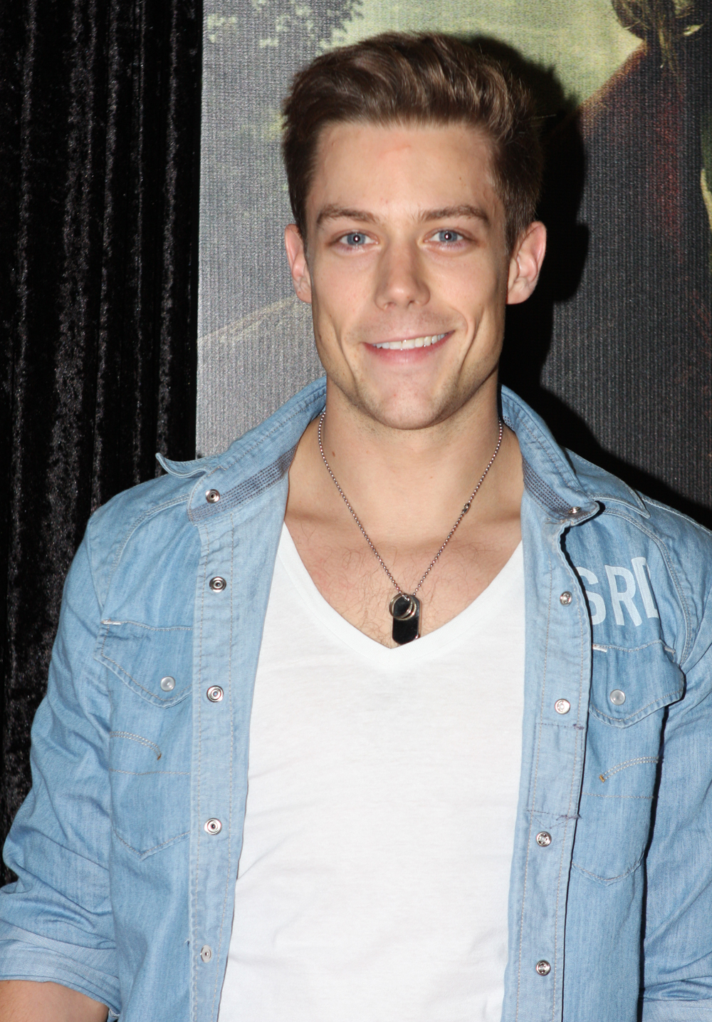 The Hobbit: An Unexpected Journey movie premiere: Sydney, Australia.